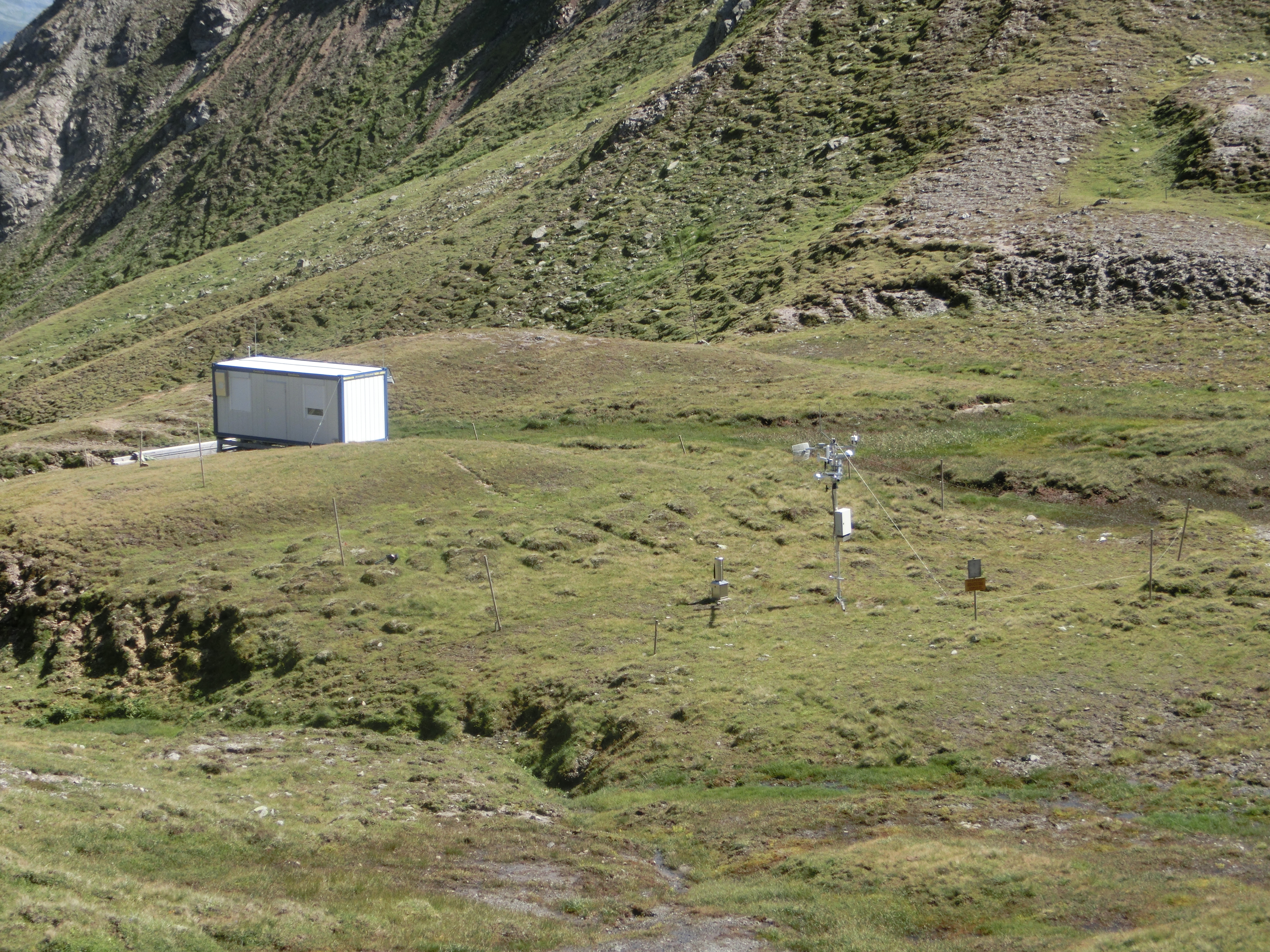 Equipment of WSL Institute for Snow and Avalanche Research SLF on Latschüelfurgga, Davos, Grison, Switzerland